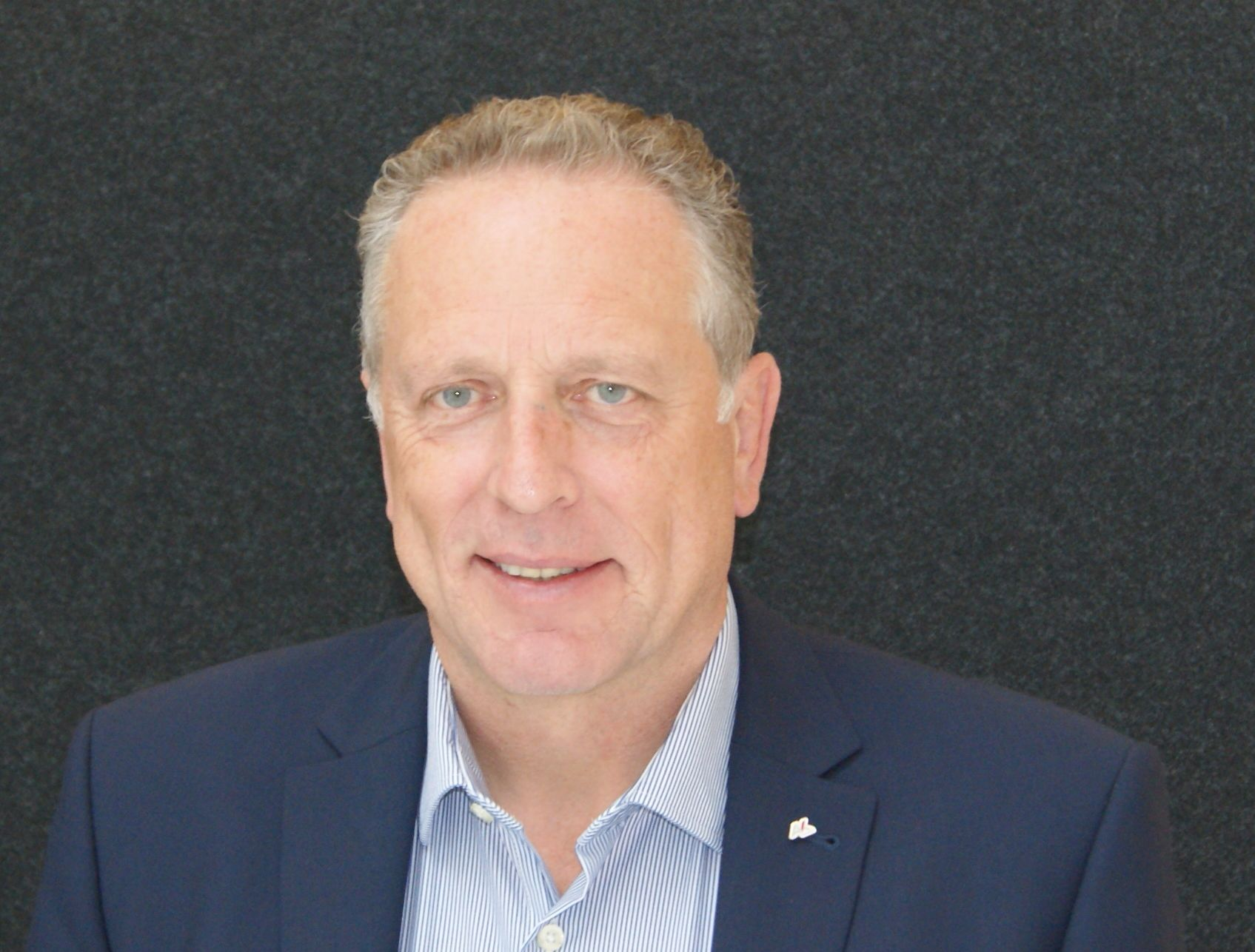 Hubert Haemmerle (born June 23, 1961 in Lustenau), Austrian trade union official and since 2006 President of the Chamber of Labor Vorarlberg. Photo on the occasion of the European Economic and Social Committee event in Feldkirch, Vorarlberg, Austria on 11 October 2018: "Economic progress and social stability as a means against EU skepticism."